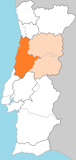 Region of Beira Litoral (Espinho, in Metro Porto, in darker colour)